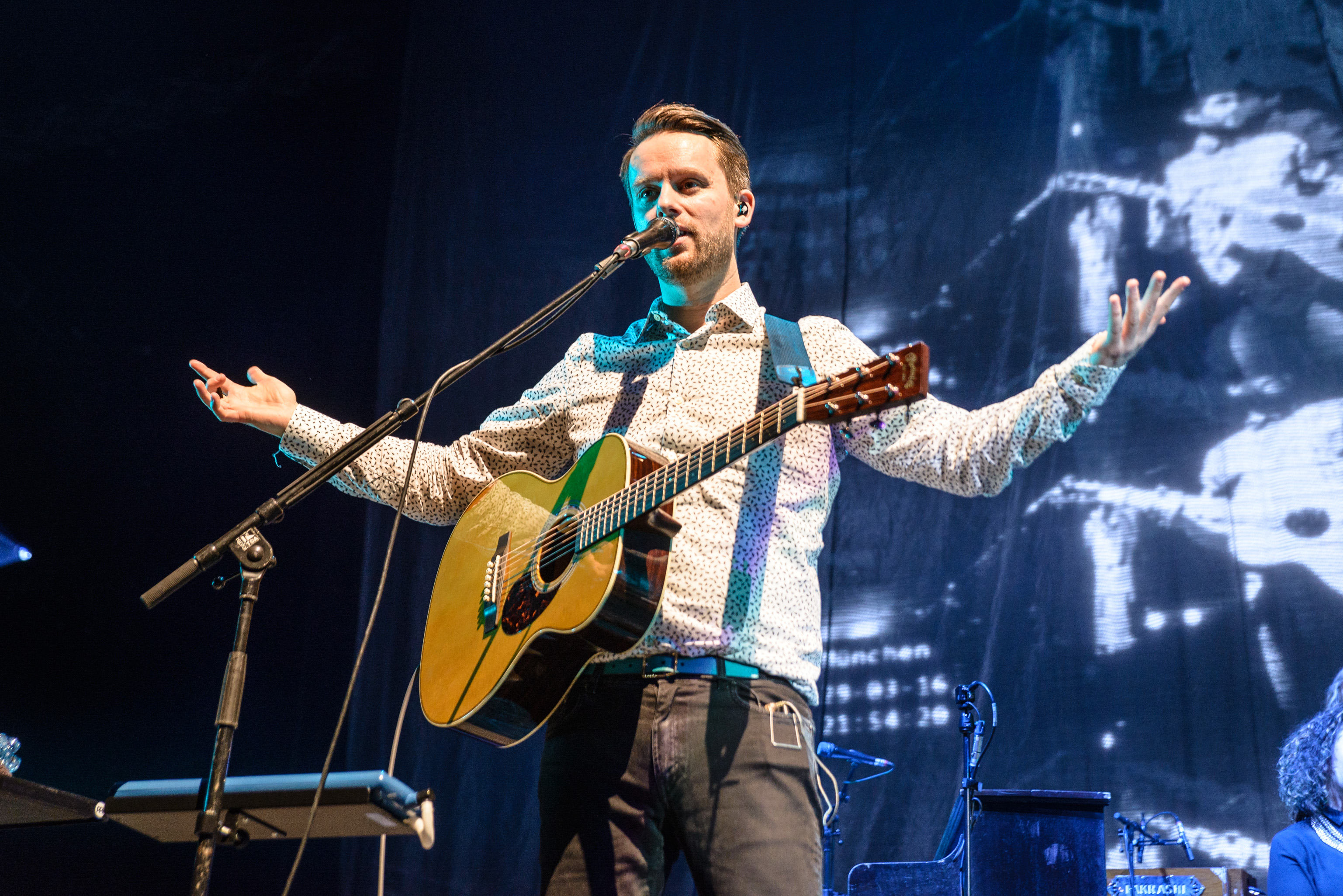 Revolverheld Live @ Munich 2016